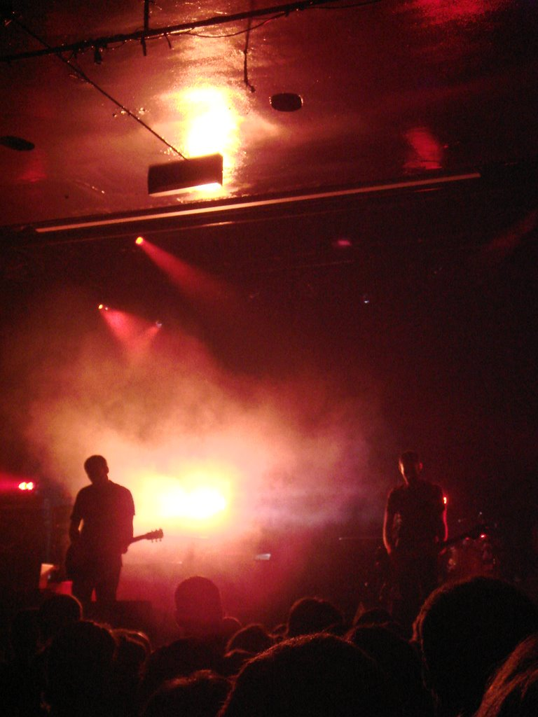 Mogwai performing in La Riviera. Madrid, Spain.